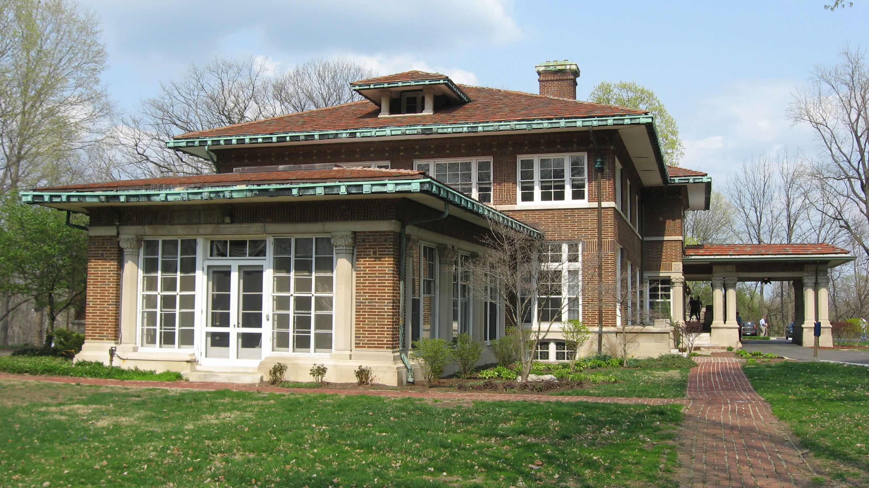 Southern end of the Allison Mansion, located at 3200 Cold Spring Road in Indianapolis, Indiana, United States. Built in 1911, it is listed on the National Register of Historic Places.